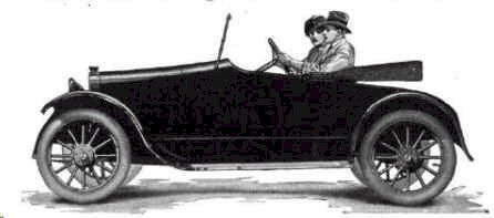 The 1916 Sterling-New York Roadster was a short-lived assembled car.